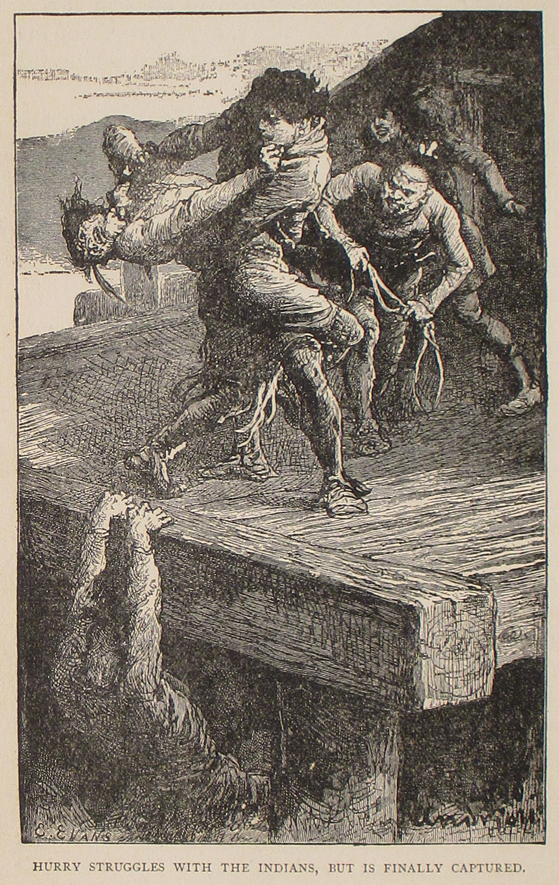 Engraving captioned "Hurry struggles with the Indians, but is finally captured"